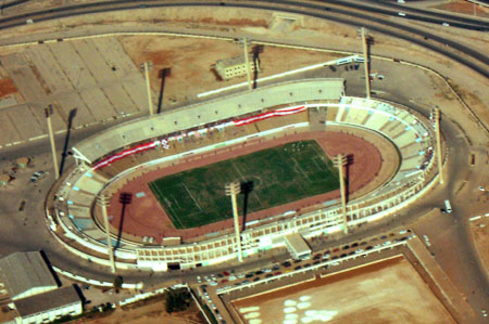 An aerial view of 28 March stadium in Benghazi-Libya , i did take this photo from the aircraft by my Sony P-200 Digital Camera.